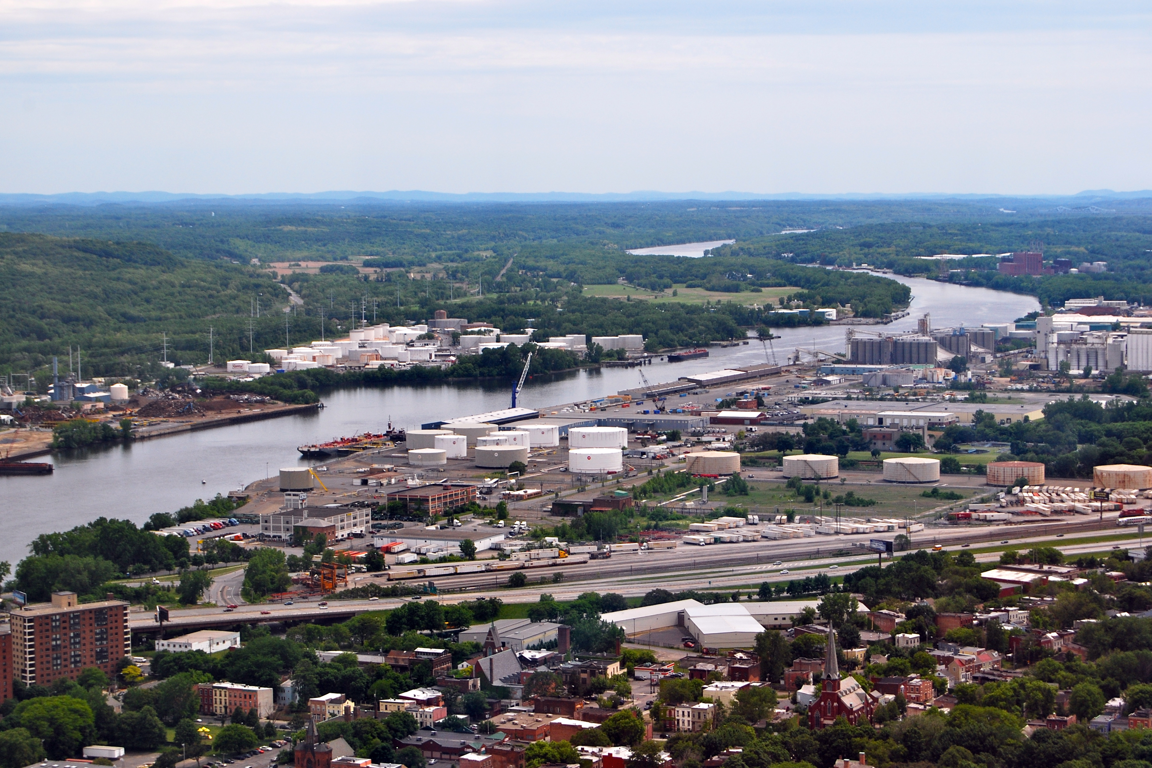 Port of Albany-Rensselaer, the major shipping port in Albany, New York, United States. Photo taken from the Corning Tower.